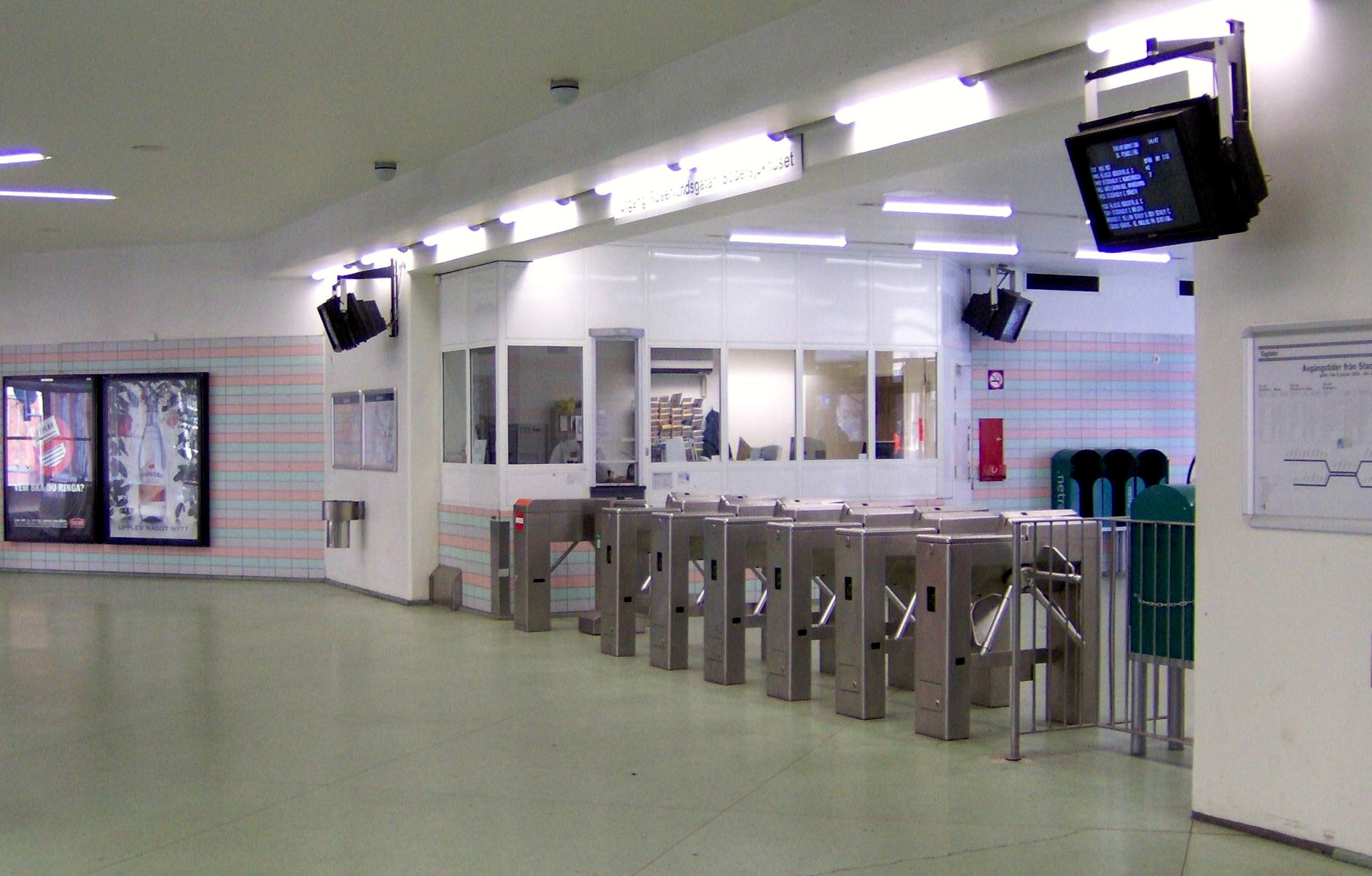 Tillers at Stockholm south commuter railway station.